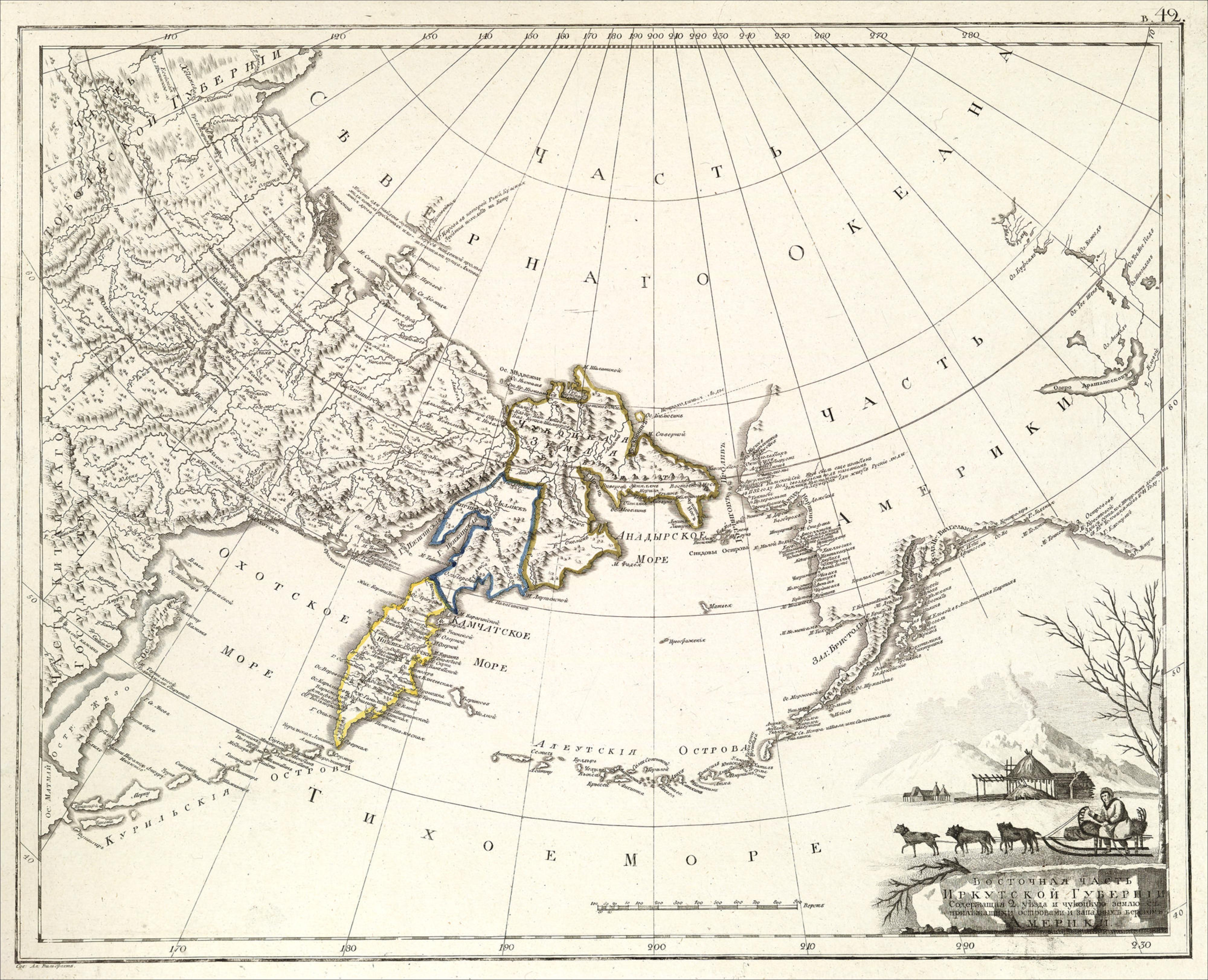 Atlas of Russian Empire. 1800 year. List 42b. Eastern part of Irkutskaya Province from 2 uyezds, Chukotka land with adjacent islands and western shores of America